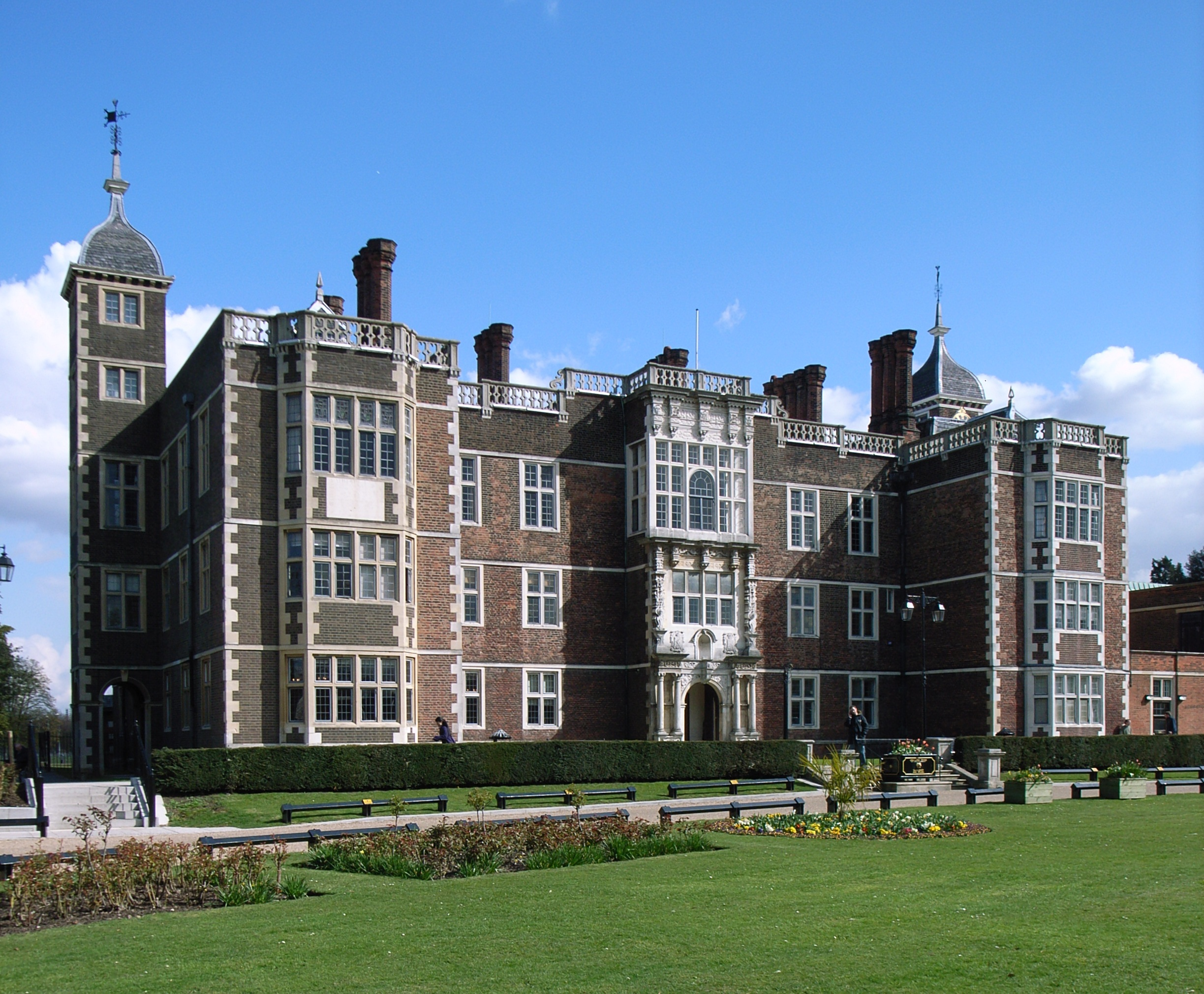 Charlton House (1607-12), close to Greenwich, South London